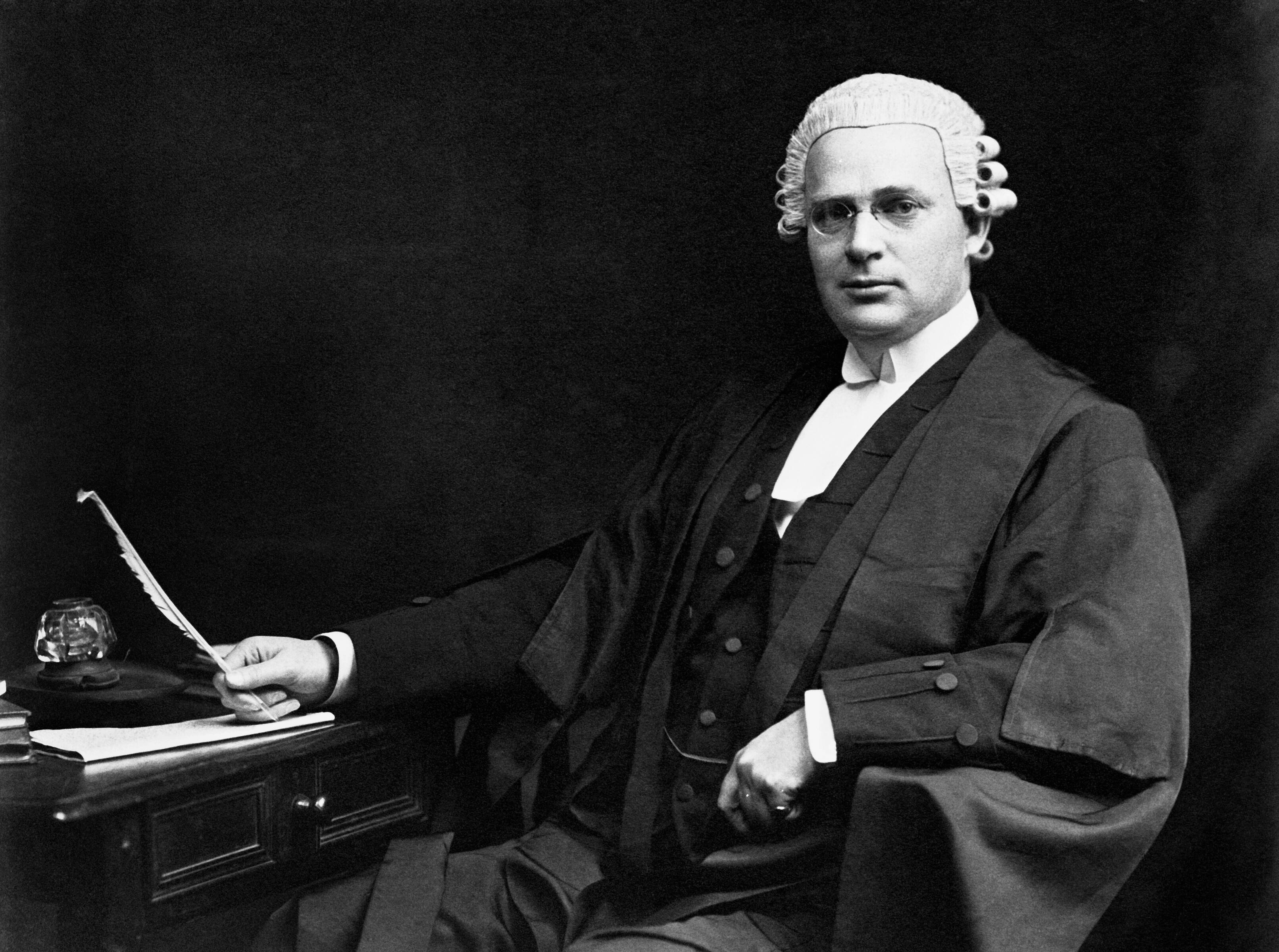 Richard B. Bennett wearing barrister's gown